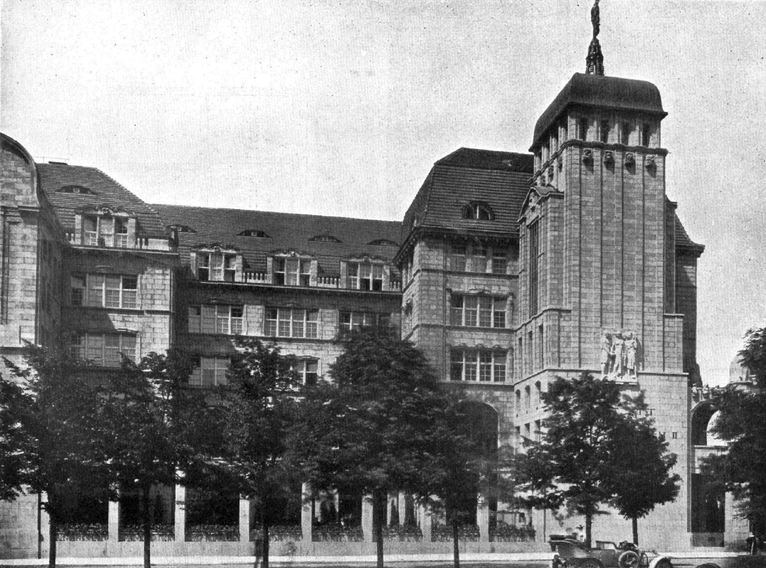 The Beer House Siechen, later called Pschorr House at Postdamer Platz No. 3 in Berlin-Tiergarten, here seen in 1911. It was built by the architect Paul Zimmerreimer.